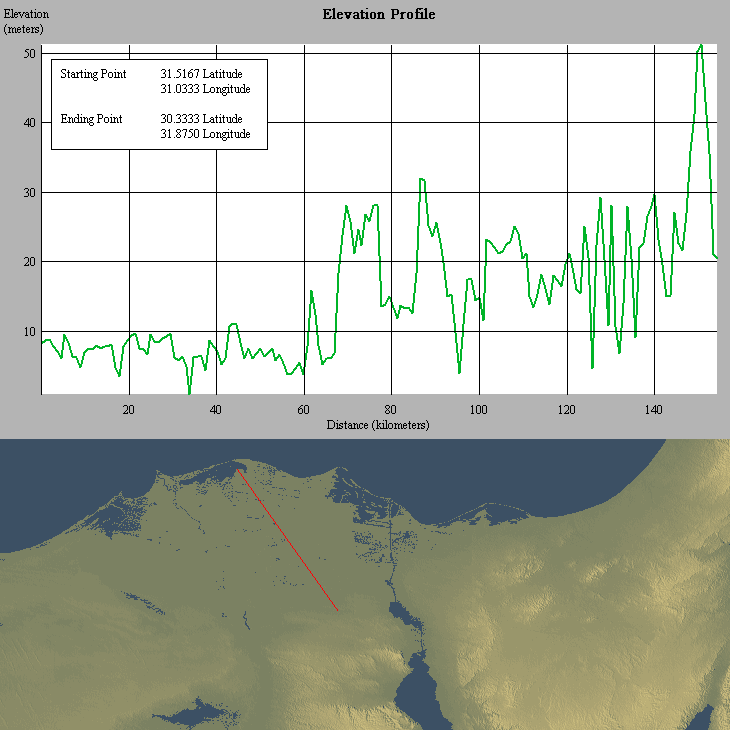 The Theran Eruption: The image shows that tsunami waves caused by Thera's eruption in 1626 BC could have easily penetrated far into the Nile delta region due to its very low elevation